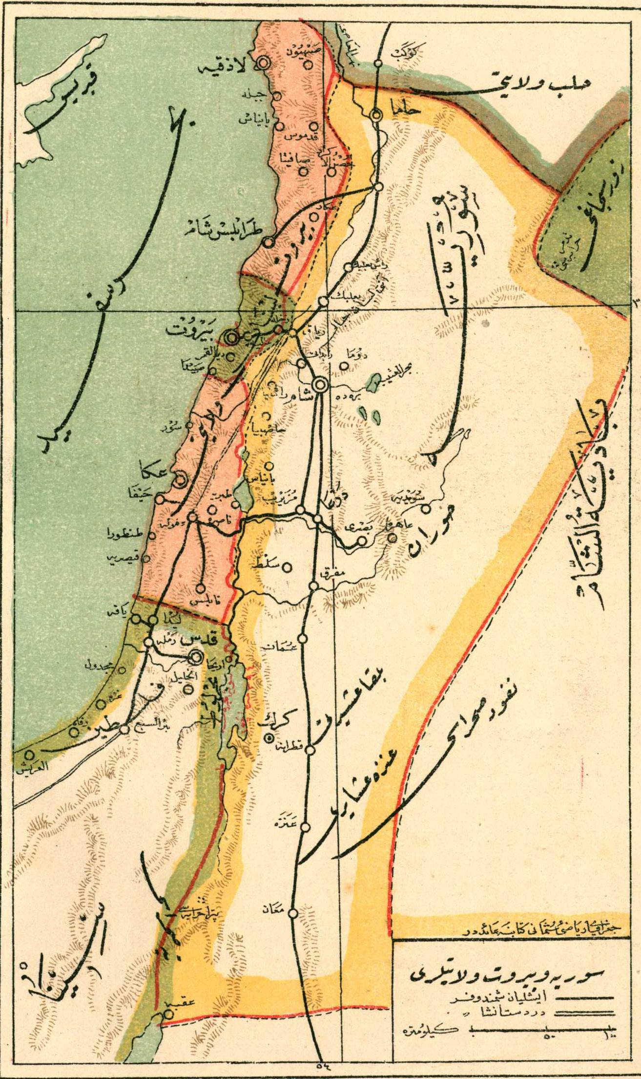 1913 Ottoman Geography Textbook Showing the Sanjak of Jerusalem and Palestine